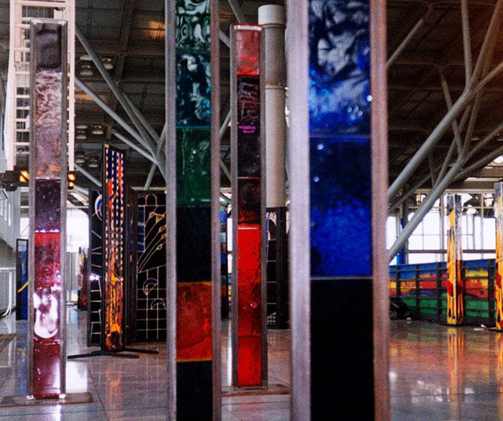 Some of Ulli Kampelmann's artworks on her exhibition at the Stuttgart International Airport.